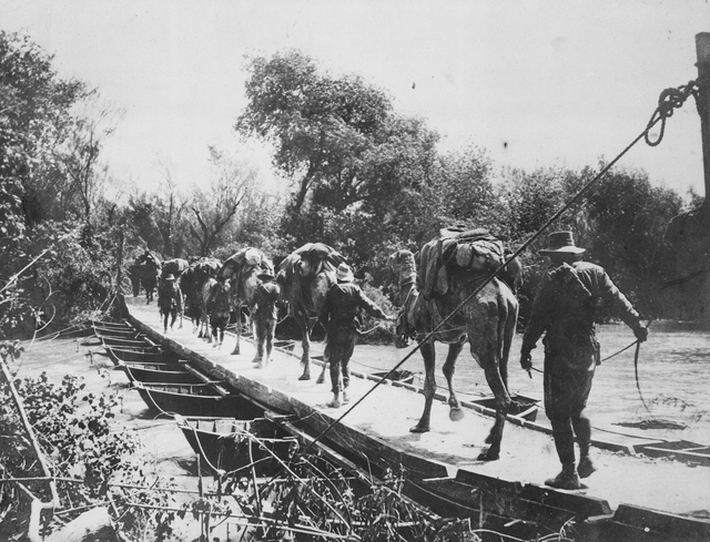 JERICHO, PALESTINE. 1918. CAMEL CORPS CROSSING THE RIVER JORDAN (TO ATTACK AMMAN) NEAR JERICHO ON PONTOON BRIDGE BUILT BY AUSTRALIAN ENGINEERS. APRIL 1918.